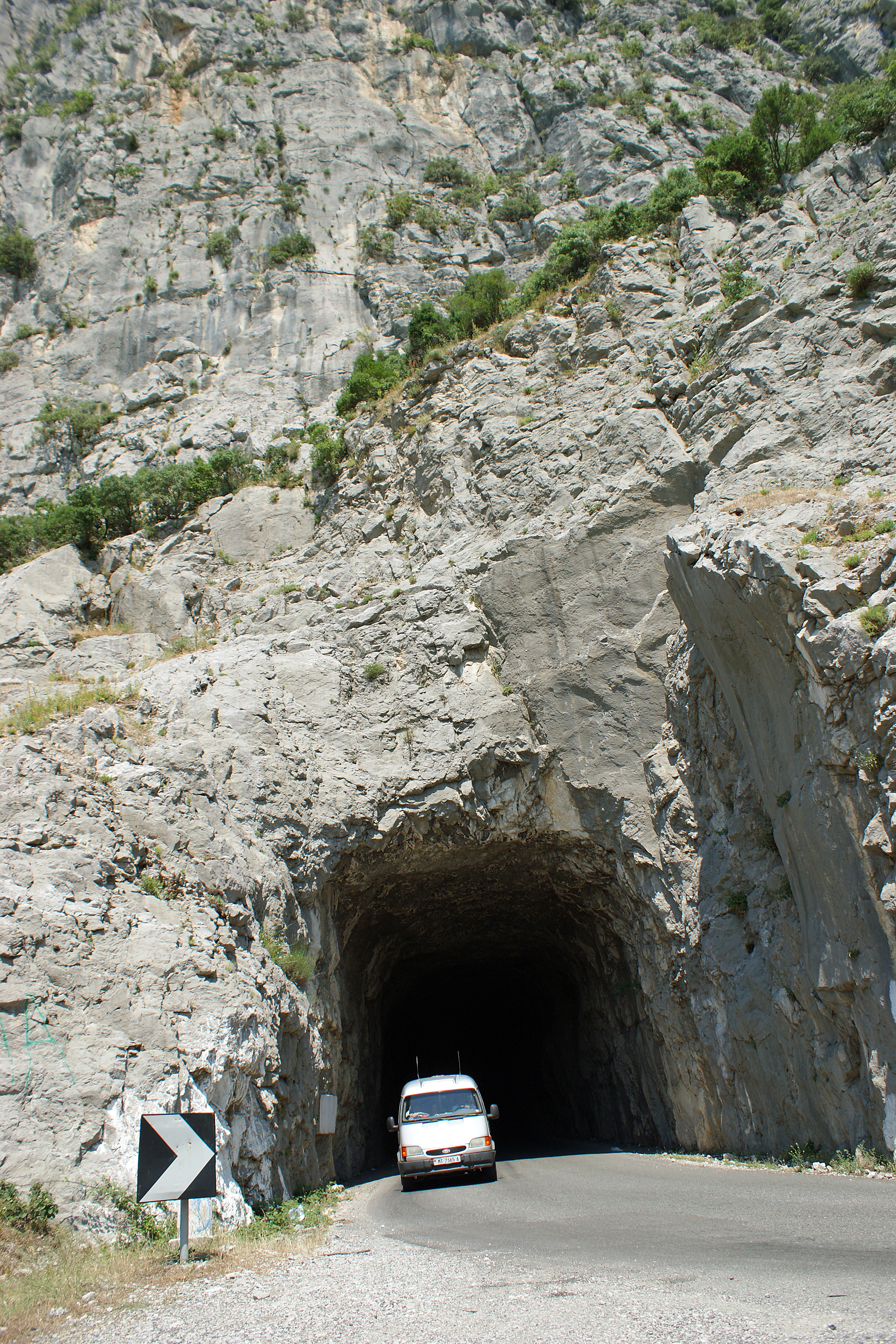 Tunnel in Shkopët, Northern Albania